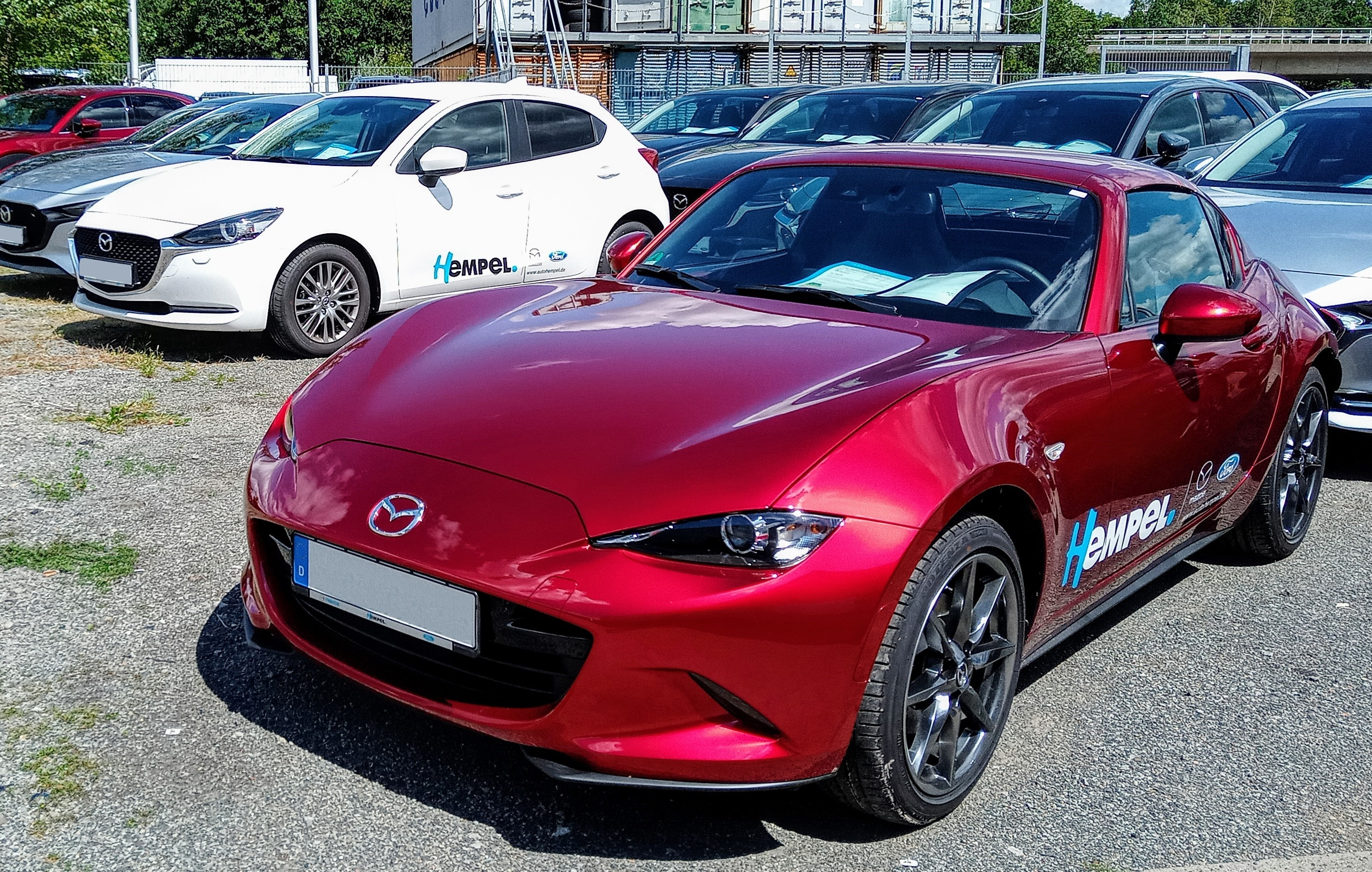 Demonstration cars of a Mazda dealer in Germany